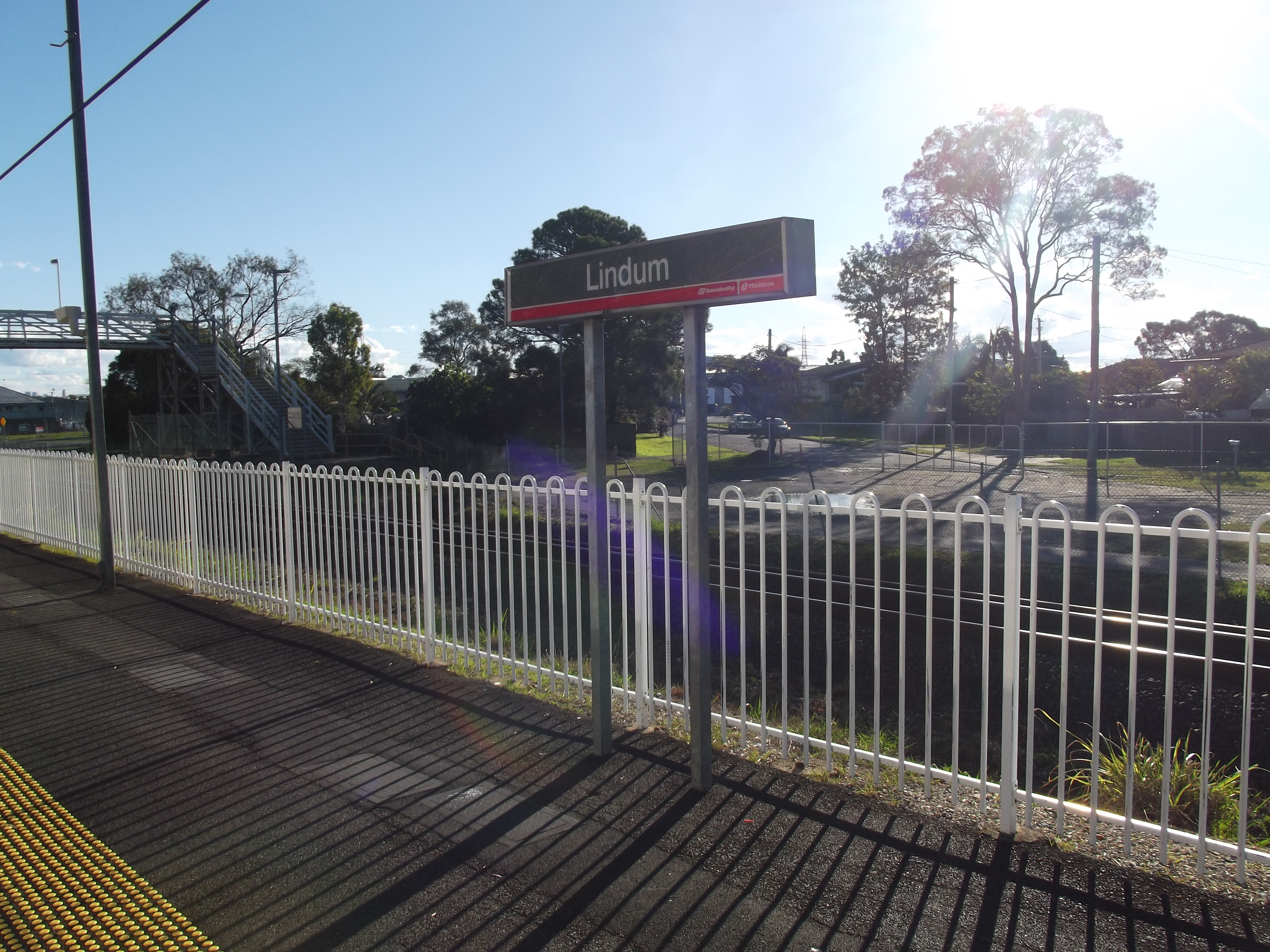 A photo of the Lindum railway station operated by TransLink, located in Brisbane, Queensland.